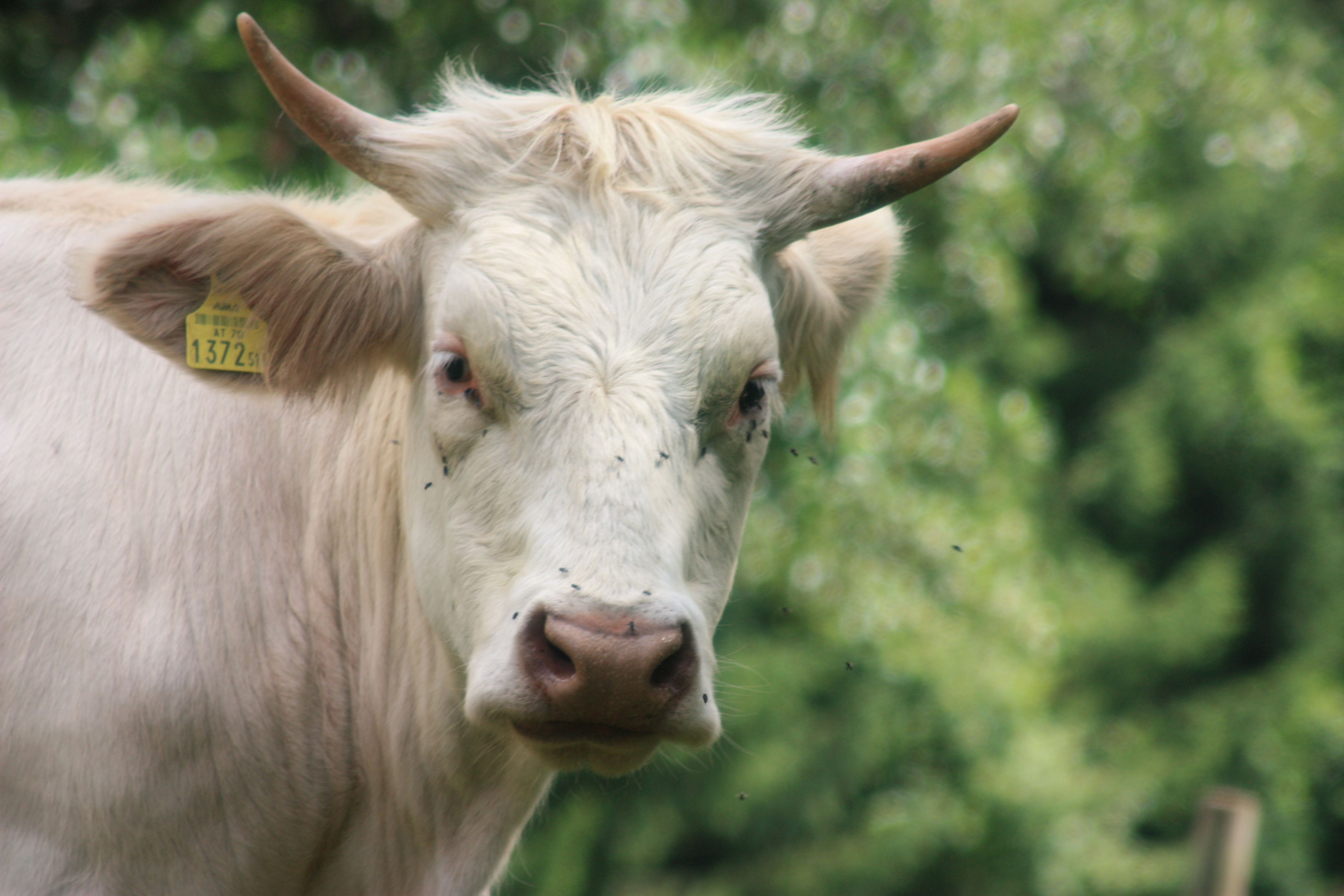 Kärntner Blondvieh (cattle breed)